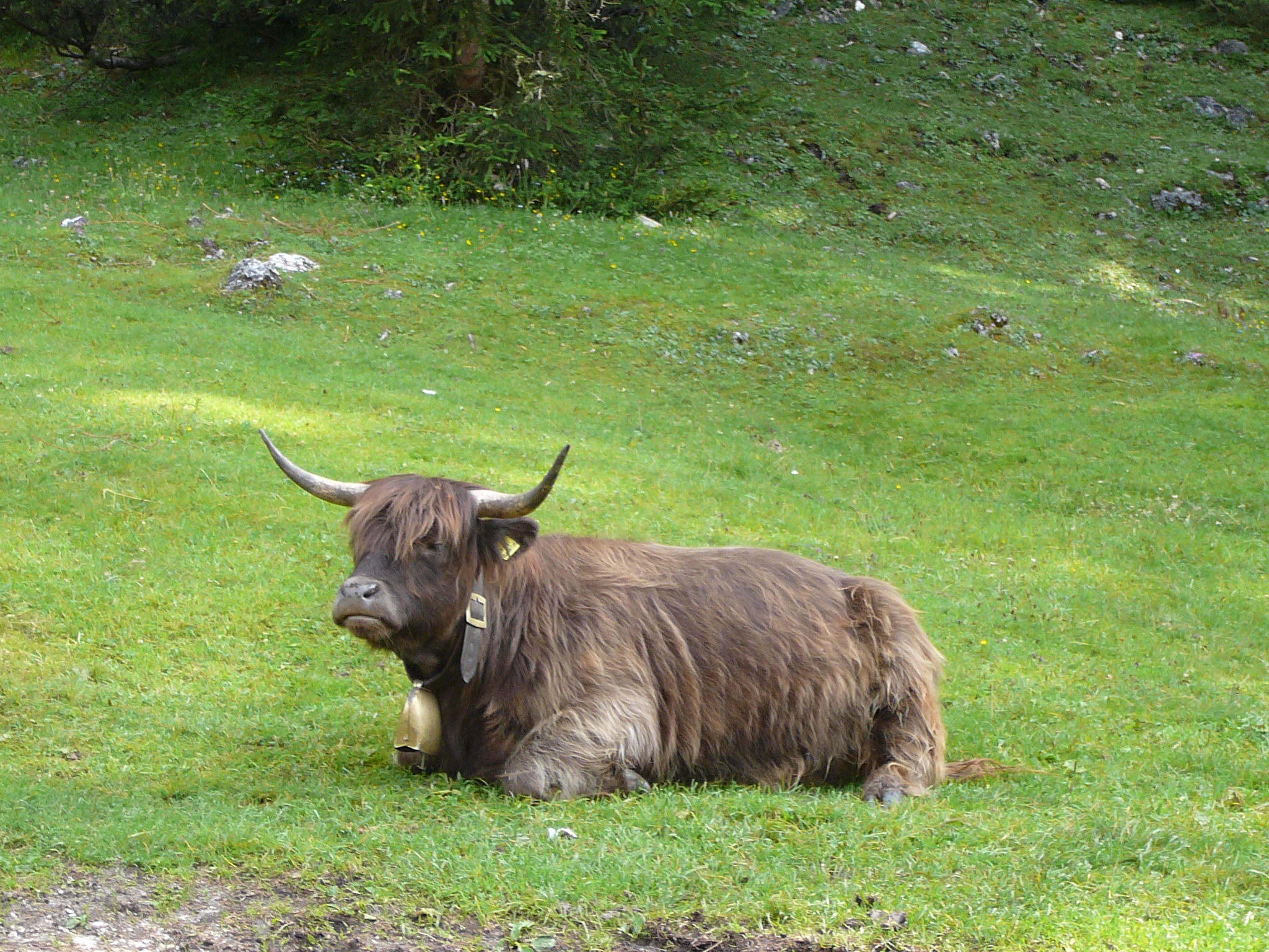 Schottisches Hochlandrind, Naturpark Fanes-Sennes-Prags (Südtirol)